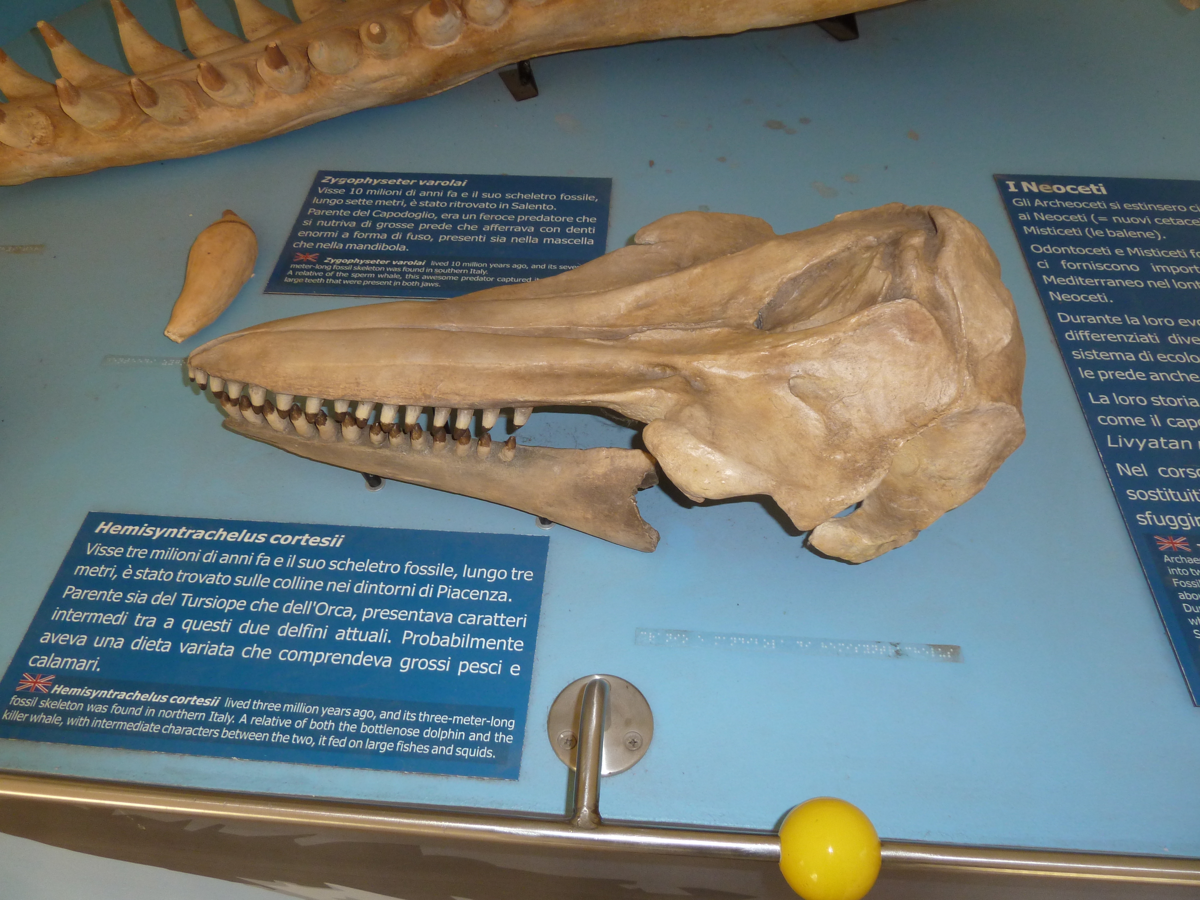 Hemisyntrachelus cortesii Fischer 1829